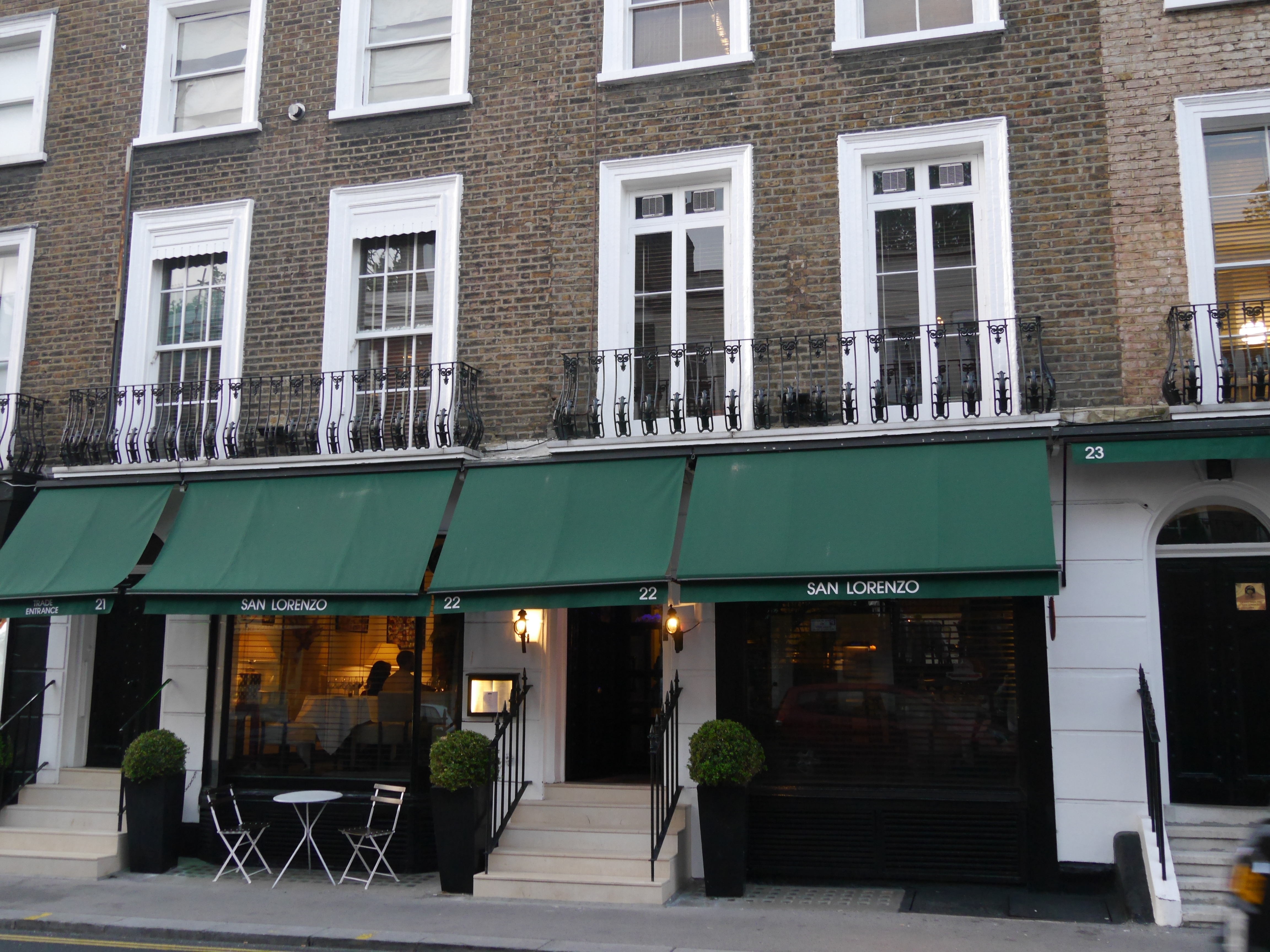 Beauchamp Place, London, June 2016